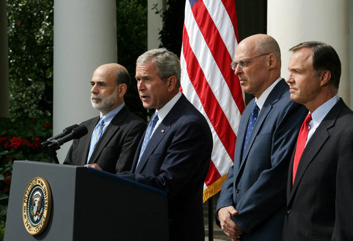 President George W. Bush stands with Federal Reserve Chairman Ben Bernanke, left, SEC Chairman Chris Cox, right, and Treasury Secretary Hank Paulson as he delivers a statement on the economy Friday, Sept. 19, 2008, in the Rose Garden of the White House.